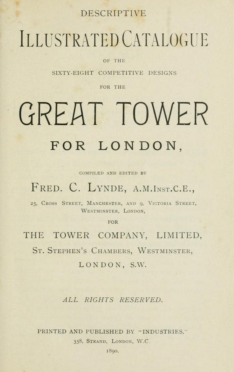 Illustrated Catalogue for the Great Tower for London